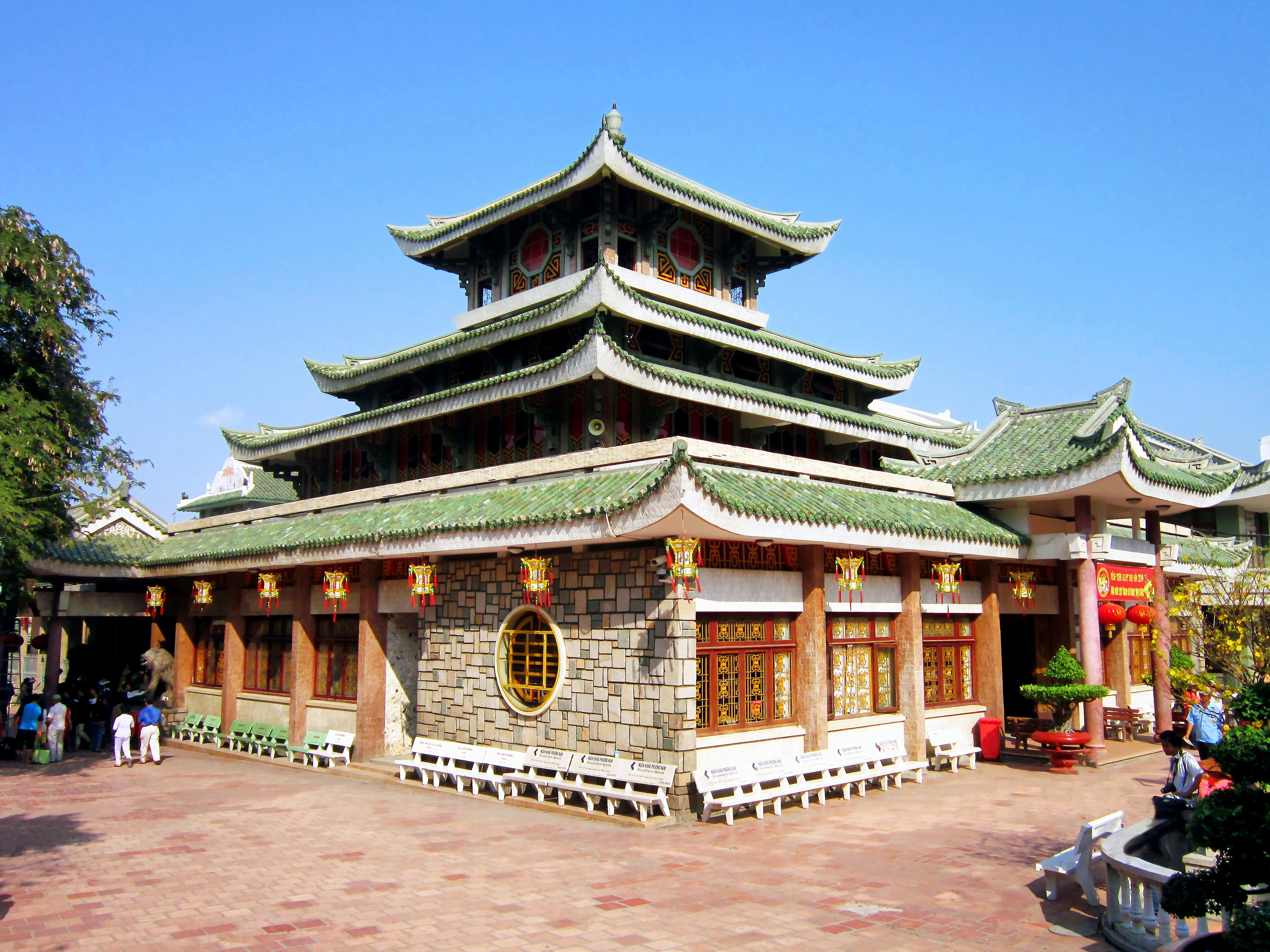 Shrine of the Sam Mountain Goddess, Nui Sam ward, Chau Doc City, An Giang Provinve, Vietnam